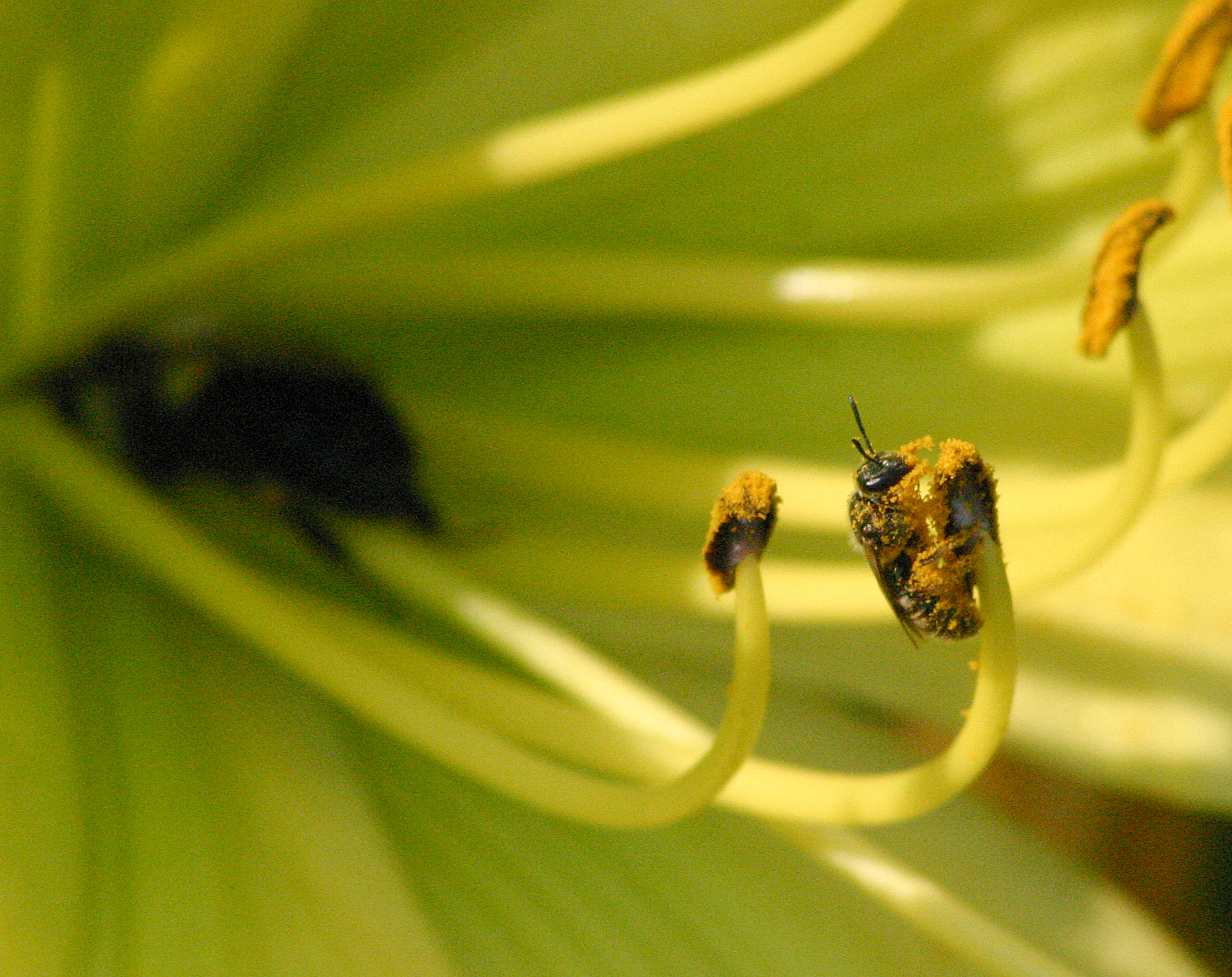 Tiny halictid bee gathering pollen, while giant bumblebee gathers nectar from a lily.